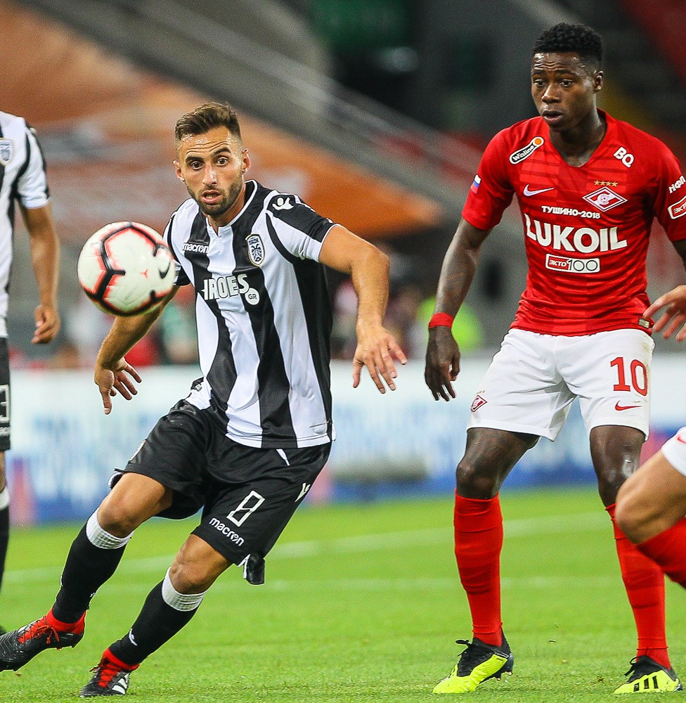 Spartak Moscow VS. PAOK 14 august 2018